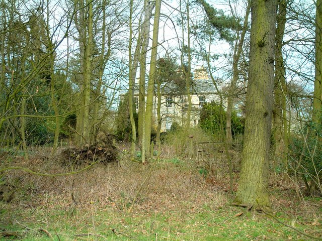 Gibliston House Seen through the long narrow strip of woodland to the west of the grounds.